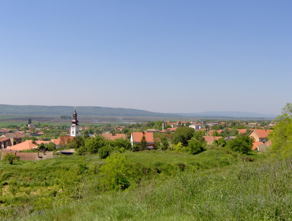 Panoramic view of Titel, Vojvodina, Serbia